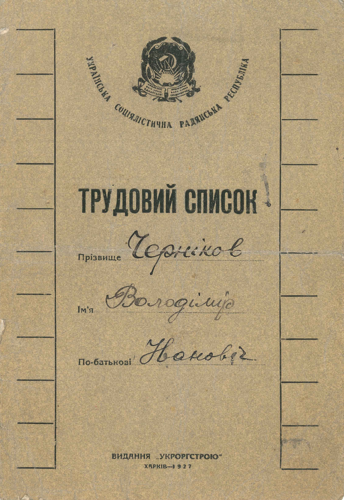 The Ukrainian Edition of the Soviet Employment Record List (ru Трудовой список/ uа Трудовий список) of the 1926 series. The original document was issued on June, 1, 1930 in Odessa by the Kupyansk regional office of the State bank of the USSR in the name of its retired manager, Vladimir Ivanovich Chernikov (27.06.1868 - 05.06.1931)